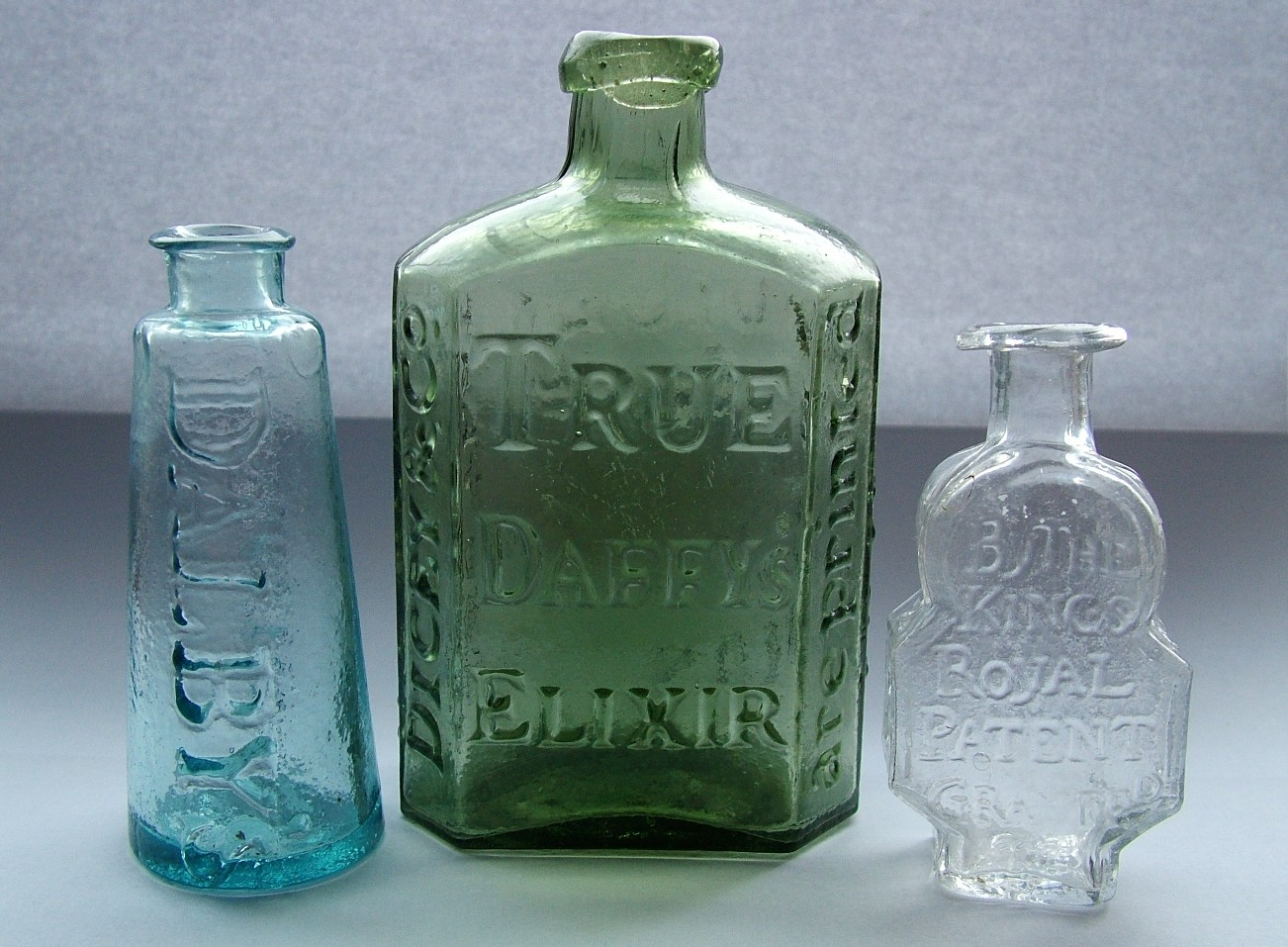 Photograph of three antique patent medicine bottles in my own (username deepestbluesea) collection. These three medicine bottles (Daffy’s Elixir, Dalby’s Carminative and Turlington’s Balsam of Life) nicely illustrate the unusual and distinctive packaging adopted by many early quack and patent medicine proprietors in Britain to ‘brand’ their products. This work has been released into the public domain by its author, deepestbluesea. This applies worldwide.In some countries this may not be legally possible; if so:deepestbluesea grants anyone the right to use this work for any purpose, without any conditions, unless such conditions are required by law.